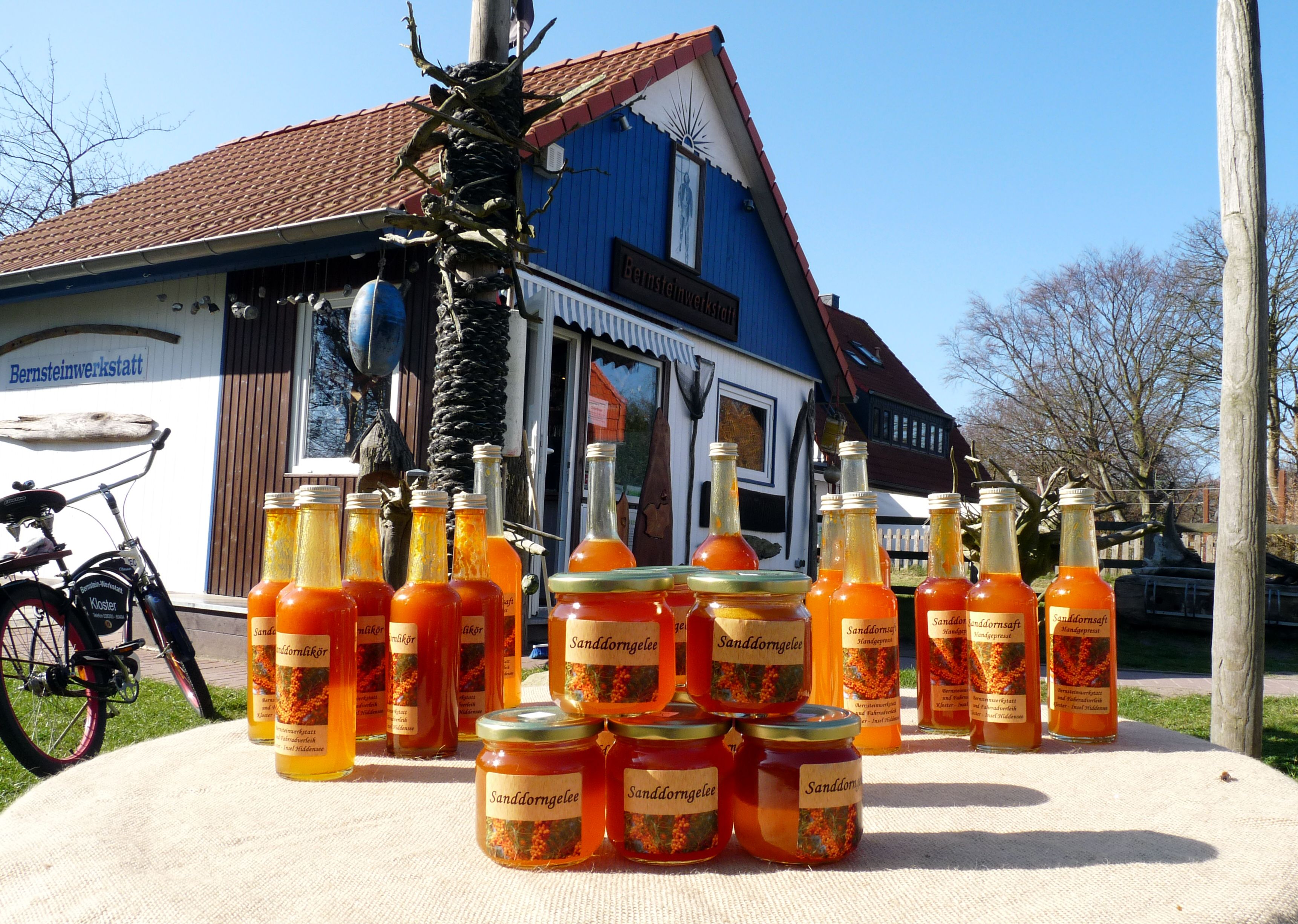 Liquor, jelly, juice made from sea-buckthorn(Hiddensee island, Germany)